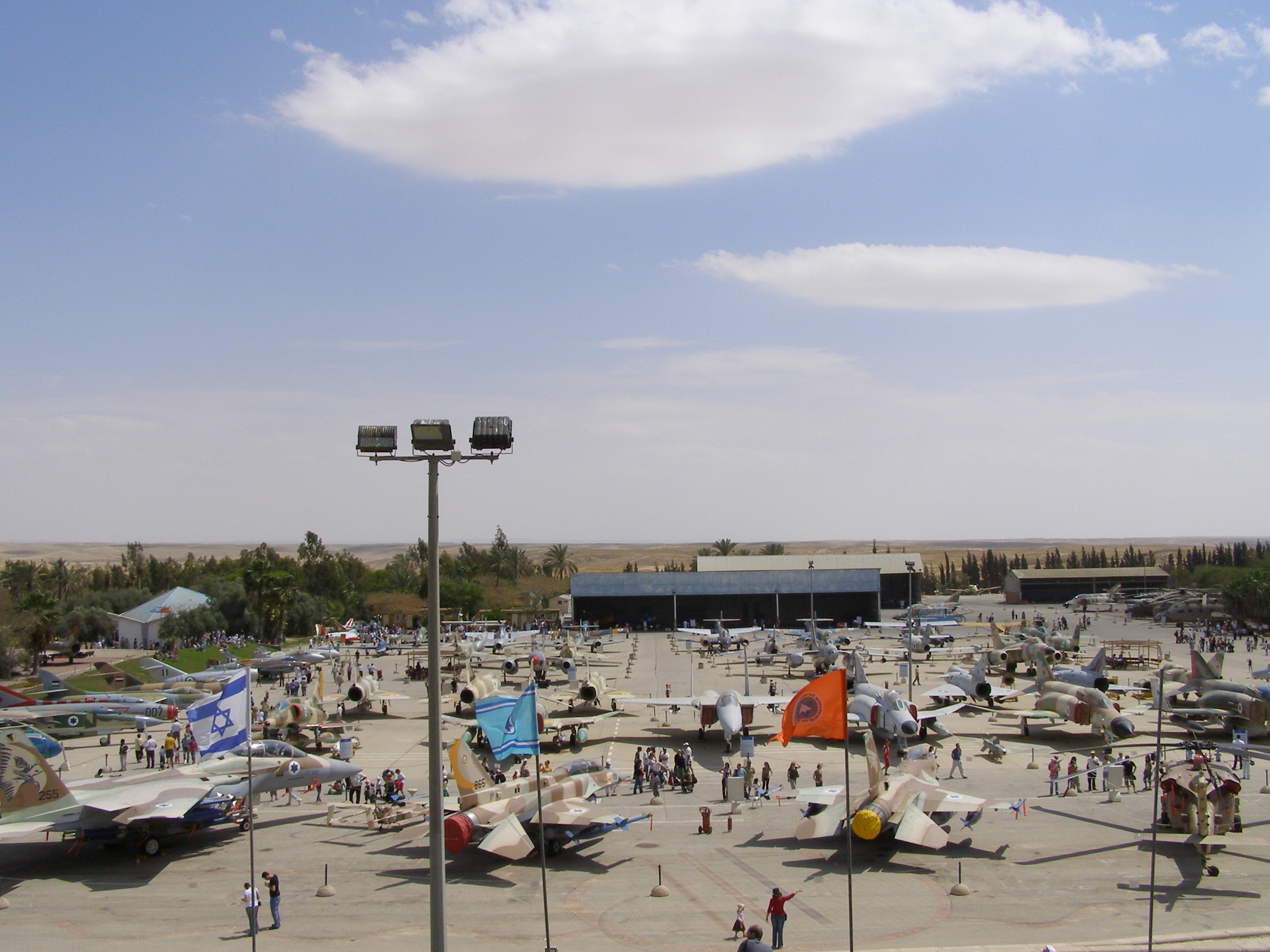 Israeli Air Force Museum in Independence Day 2008